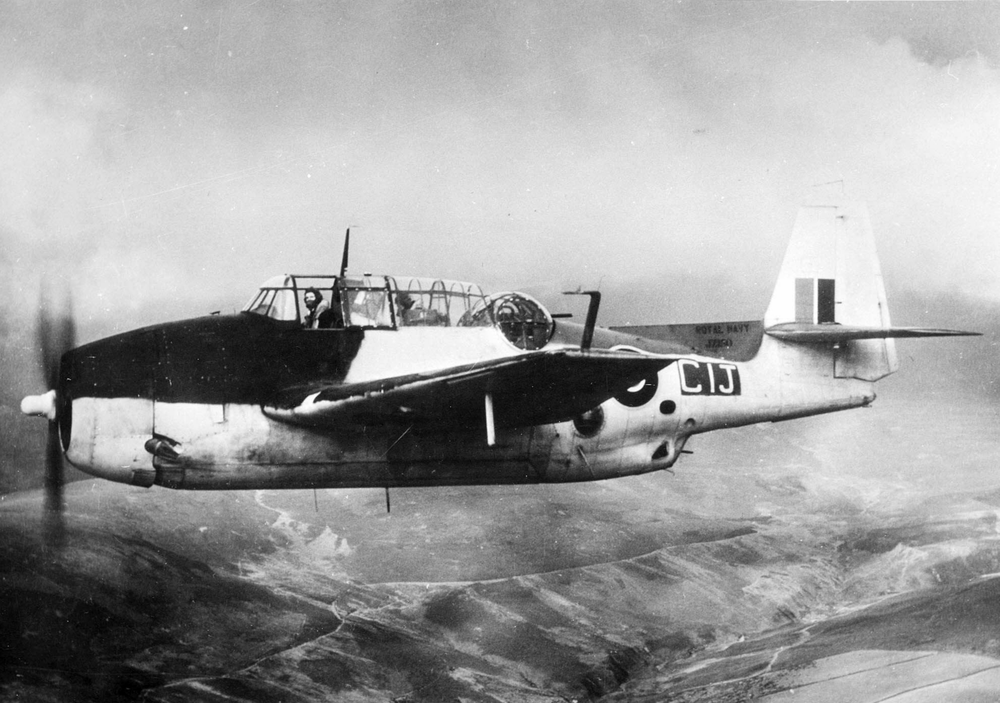 A Royal Navy Grumman Avenger Mk.I (serial JZ150) from 711 Naval Air Squadron in flight. 711 NAS was an operational conversion unit (OCU, training squadron) was based at Royal Naval Air Station Crail (HMS Jackdaw), Scotland (UK).